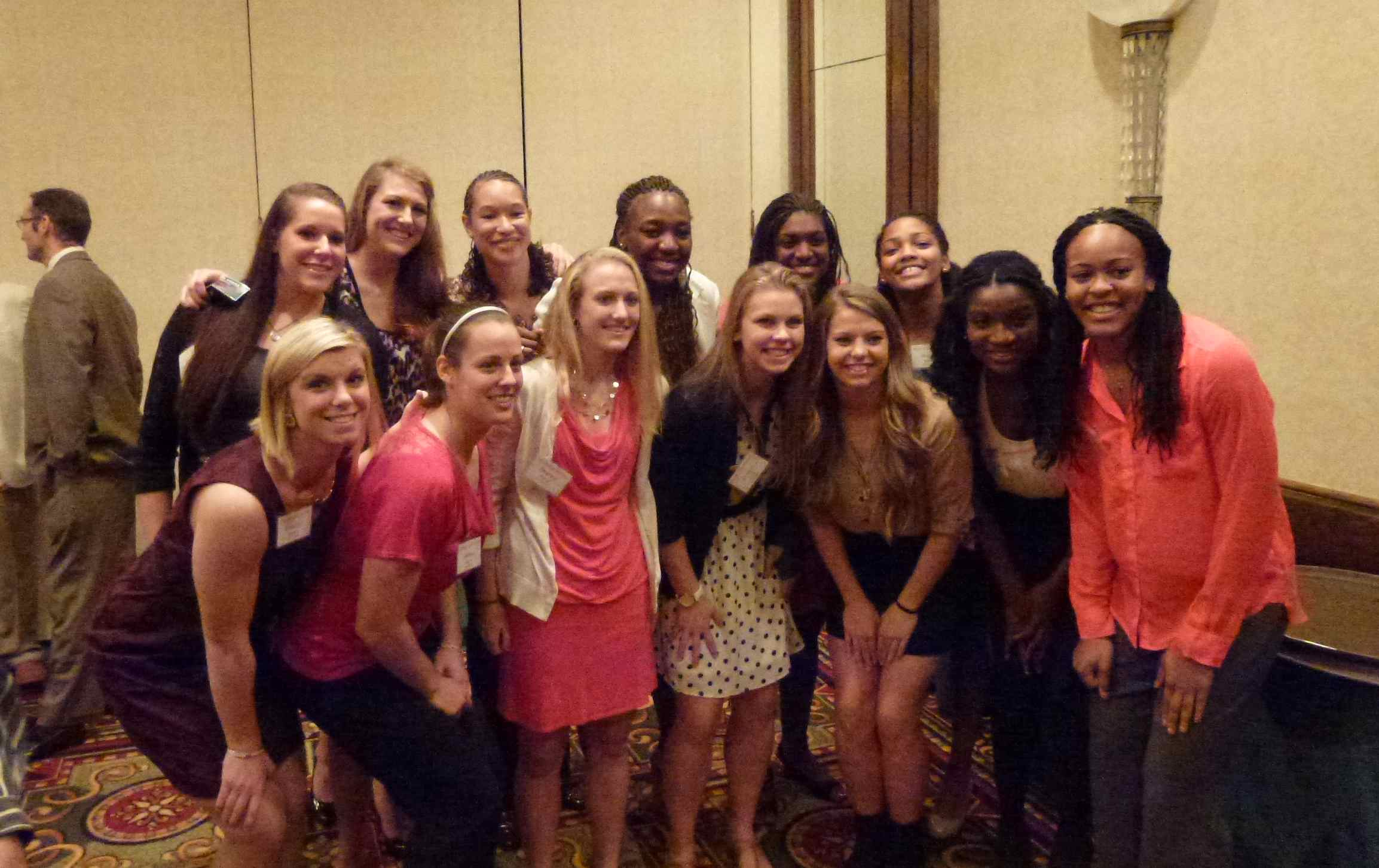 2013–14 Hartford Hawks Women's Basketball team. 13 of the 15 players on the roster are pictured. the photo was taken at the Tip-a-Hawk event prior to the beginning of the season, held at the Farmingtom Marriott. The missing players are Katie Roth and Mallory Shickora, both of whom suffered ACL injuries, and were unable to attend. Assistant coach Bill Sullivan is seen on the left of the image.